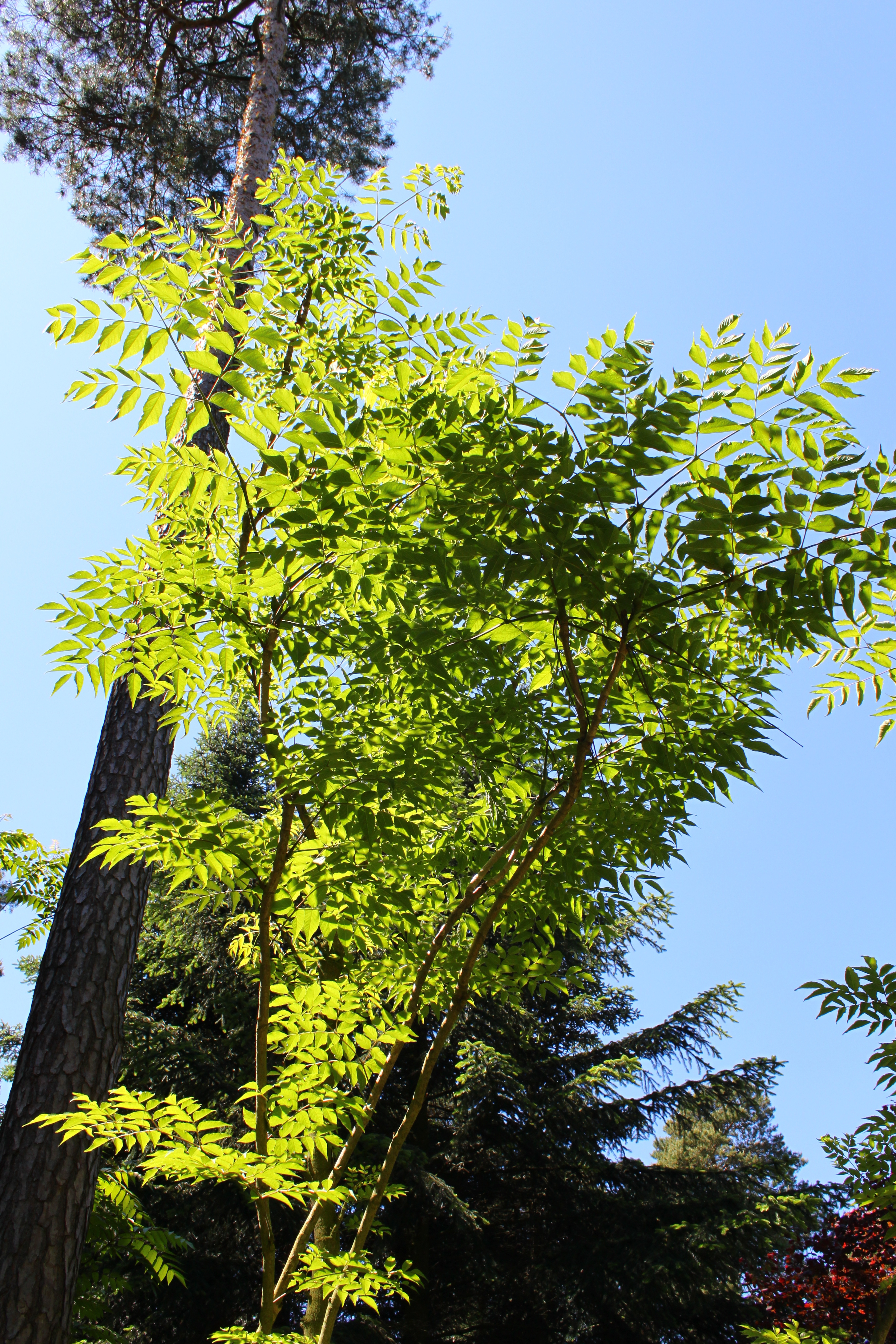 Aralia chinensis in Rogów Arboretum, Poland